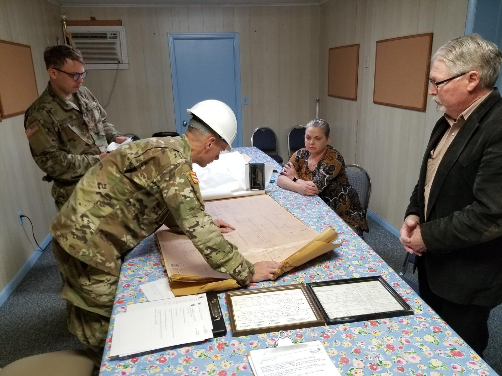 Texas Army National Guard Staff Sgt. Coulam, assigned to the 111th Engineering Battalion, 176th Engineering Brigade, reviews plans for the Chillicothe Hospital with the hospital's board president and CEO. Texas Military Department engineers have helped Texas double its hospital capacity over the last week by updating and bringing older facilities back online. (Courtesy Asset: Texas Military Department 176th Engineering Brigade)